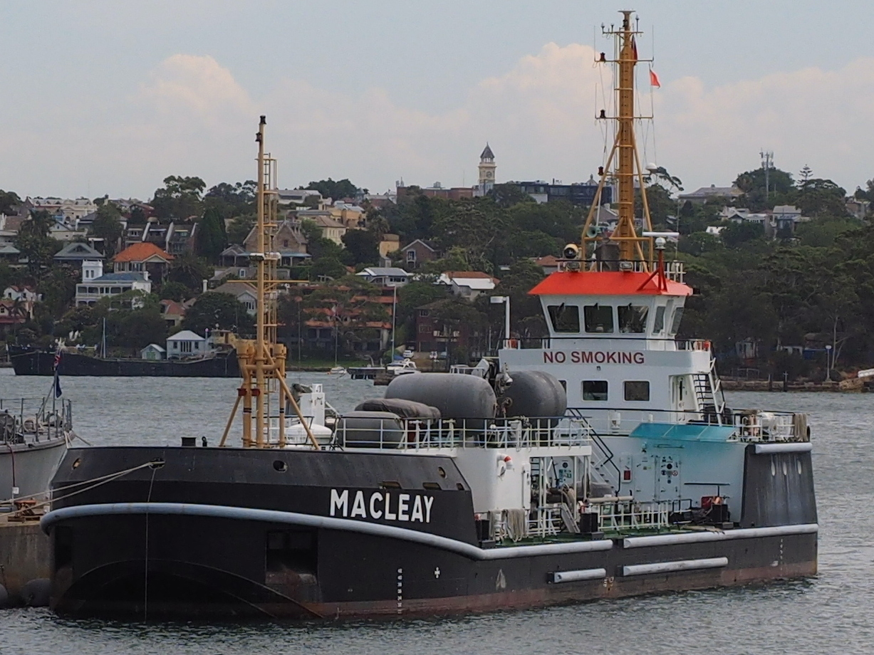 Oil products tanker Macleay at HMAS Waterhen in December 2017